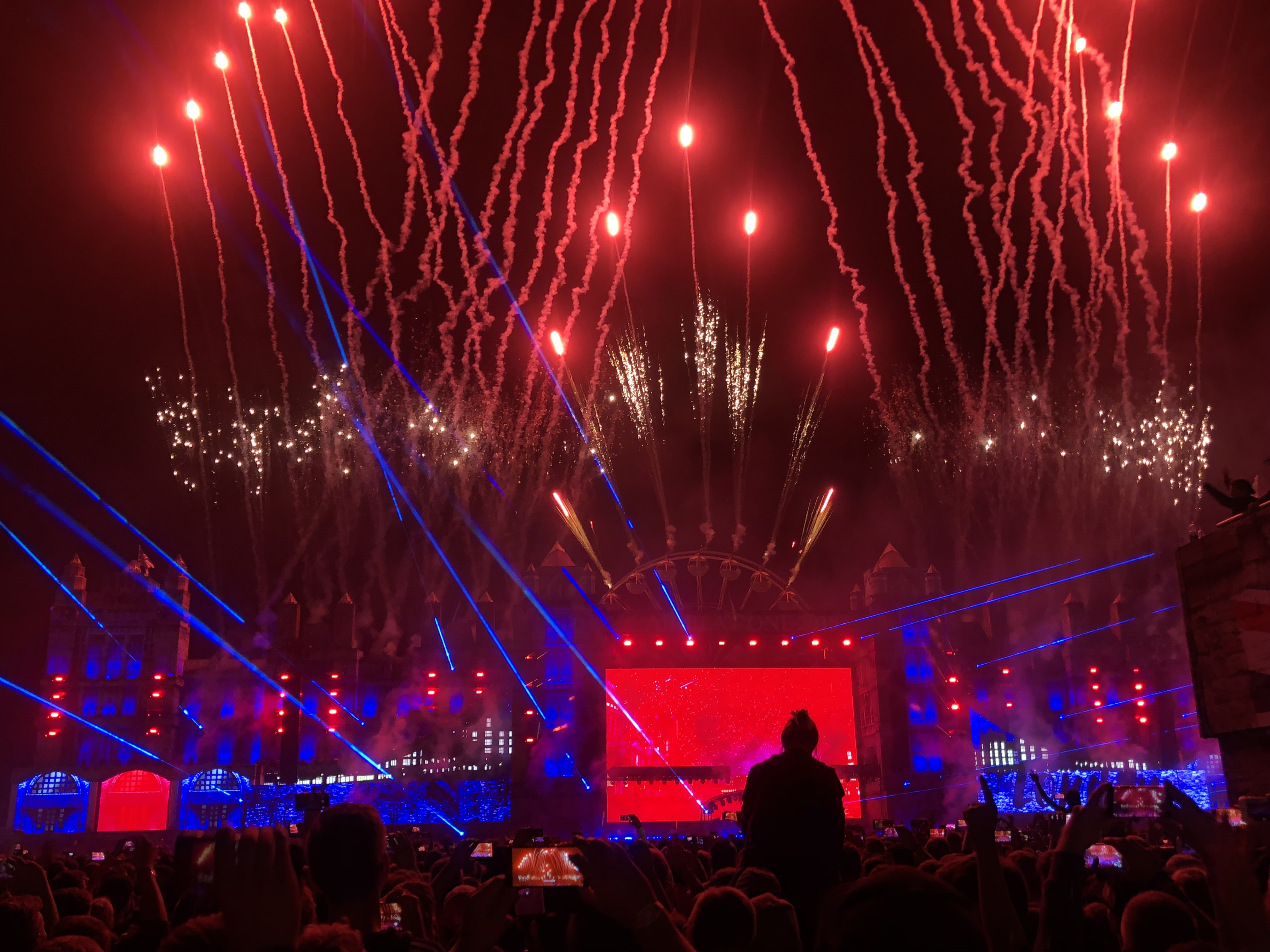 Firework at Airbeat One Festival 2018, Neustadt-Glewe, Germany.